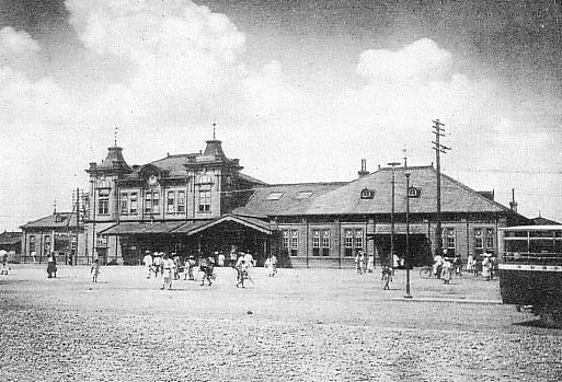 Taikyu(Daegu) Station circa 1930